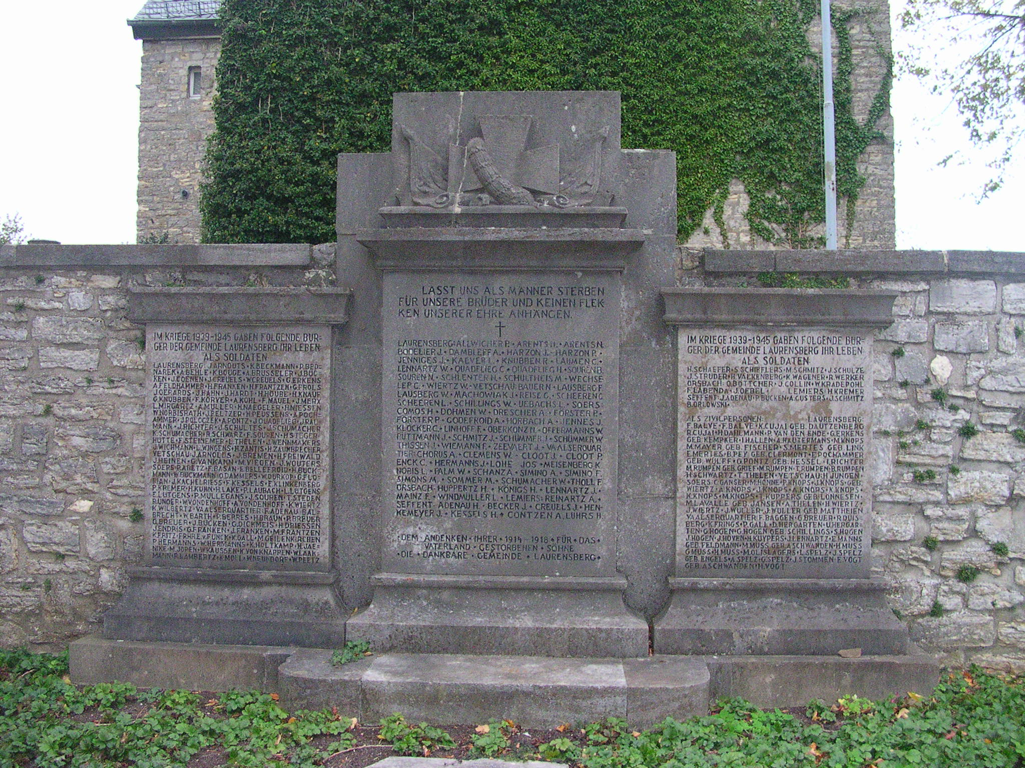 Memorial to the fallen in the two world wars, in the vicinity of the Laurentius church, in Aachen Laurensberg